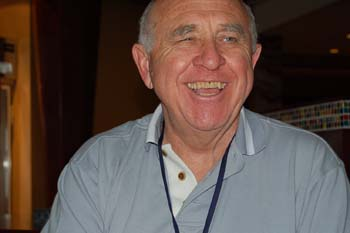 American publisher Tom Doherty.